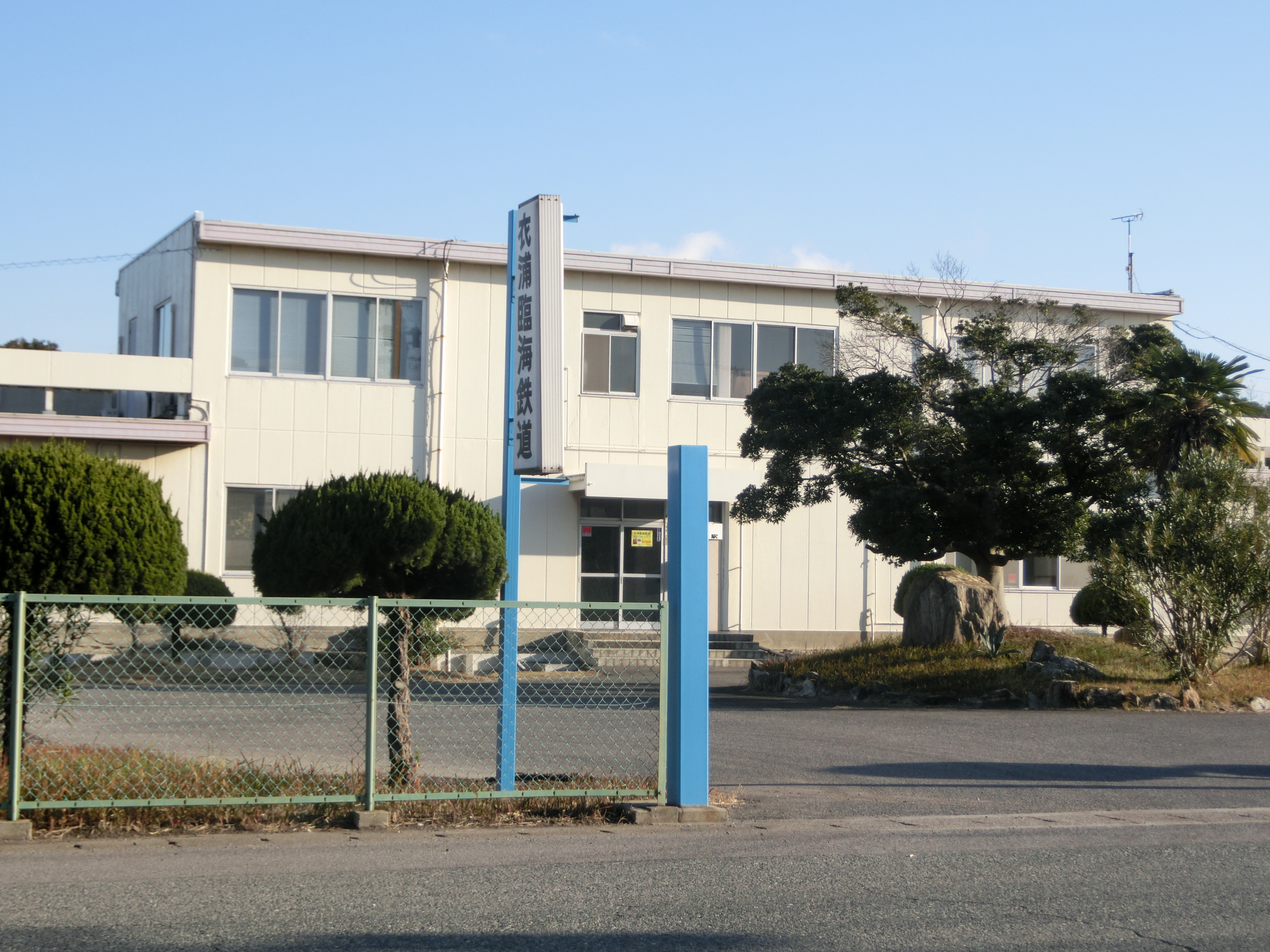 Kinuura Rinkai Railway Head Office